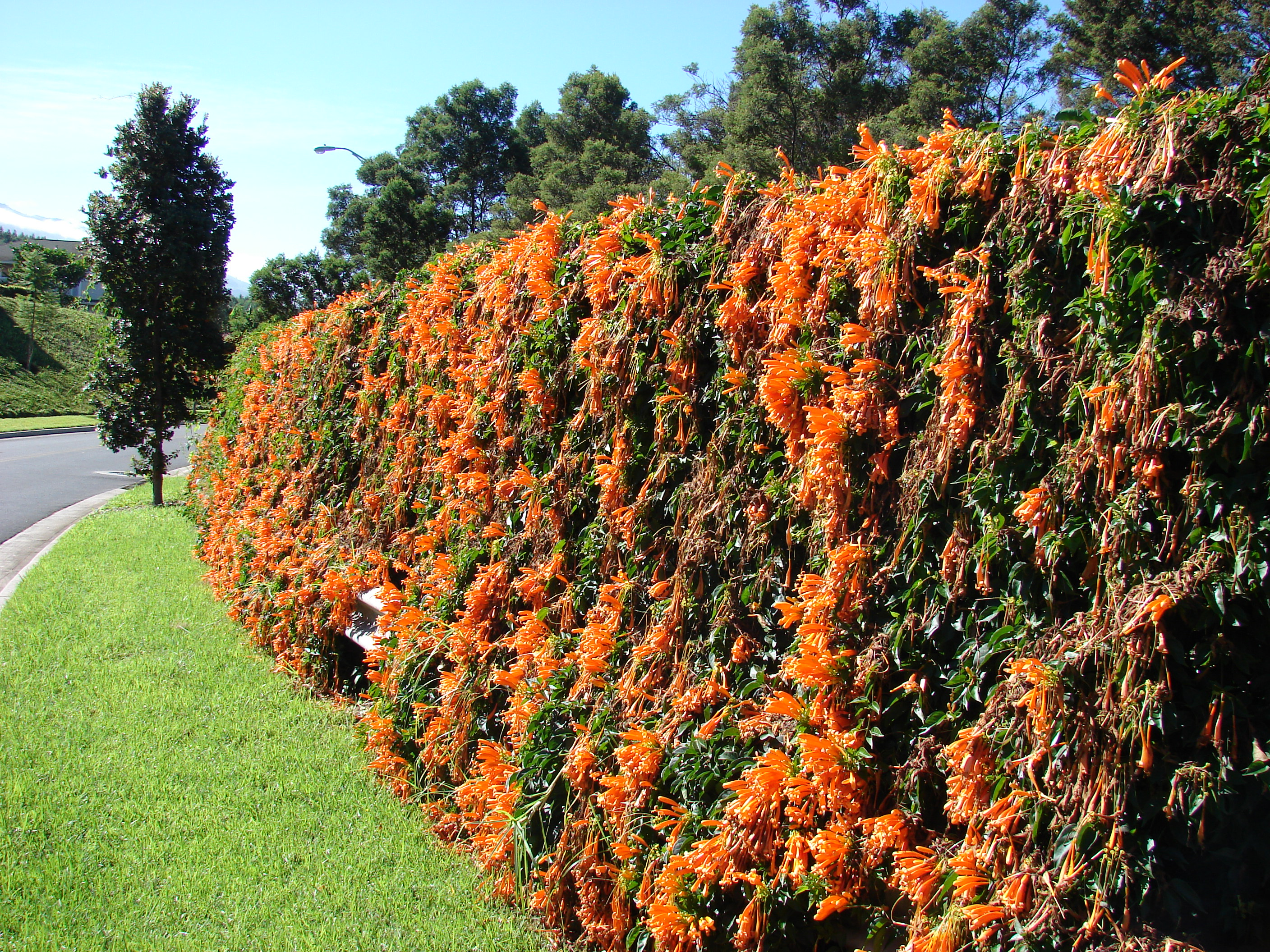 Pyrostegia venusta (flowering habit). Location: Maui, Kulamanu Kula